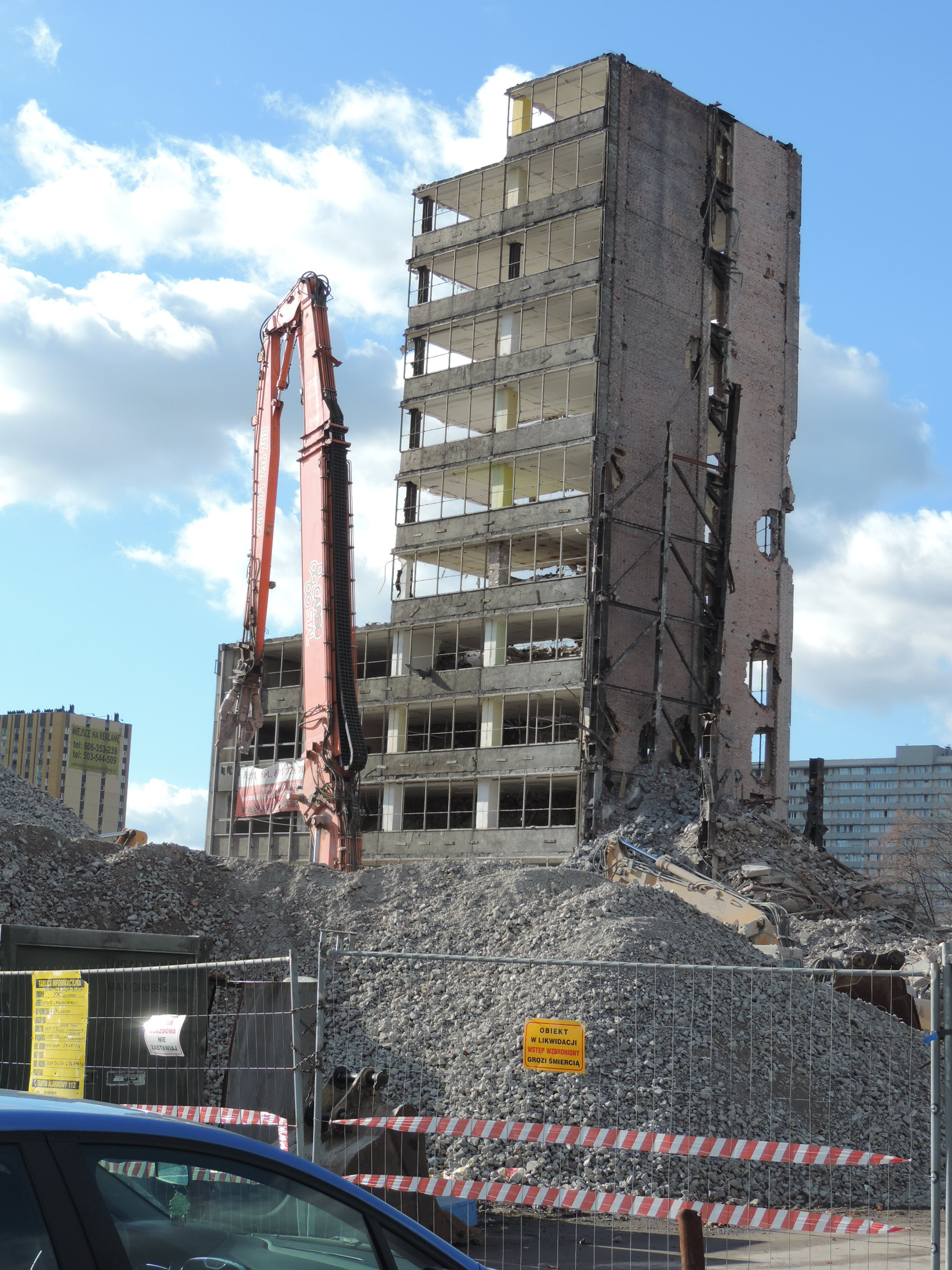 DOKP skyscraper in Katowice in demolition - 8.11.2015